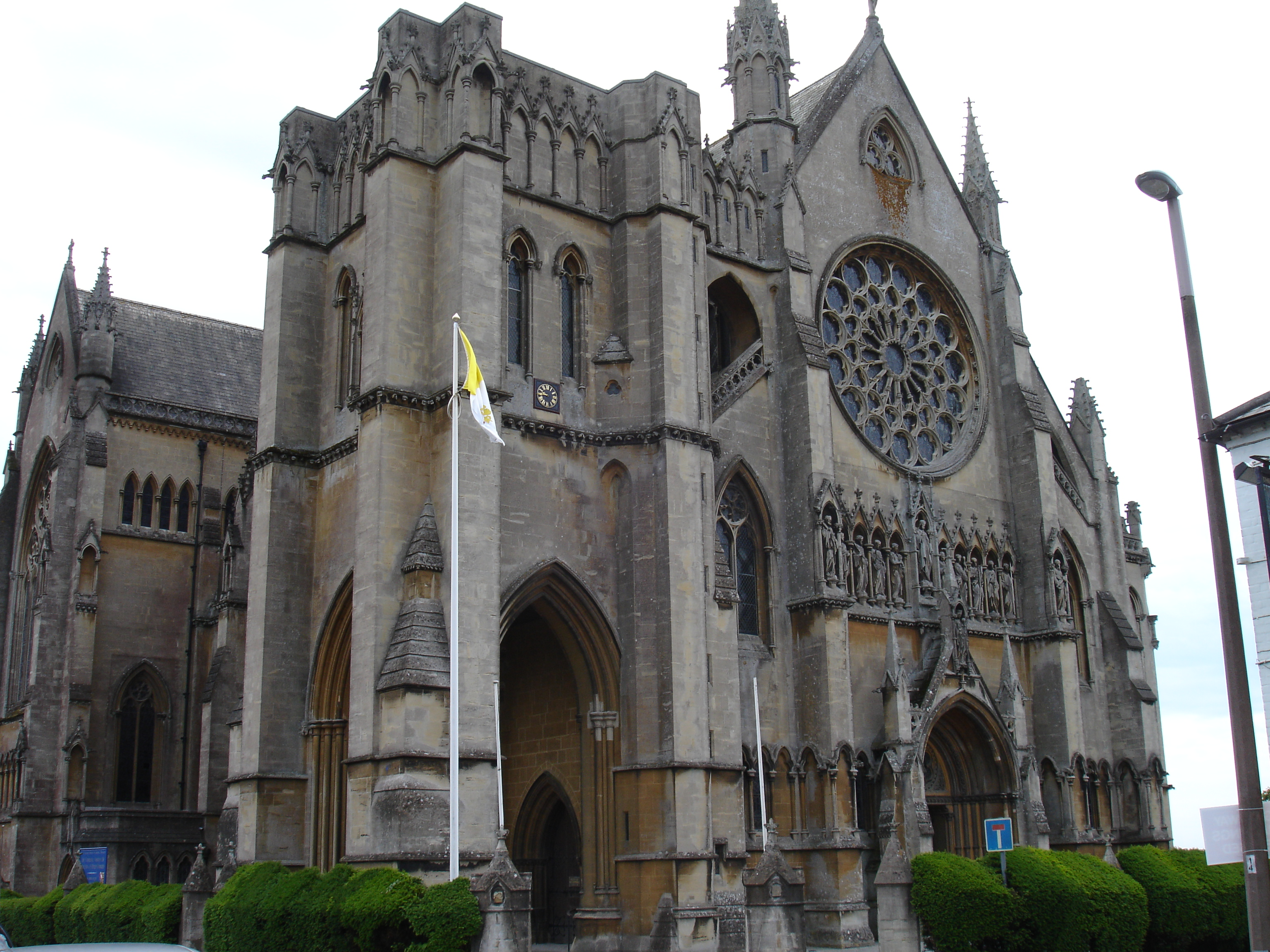 Photograph of Arundel Roman Catholic Cathedral, Sussex, England